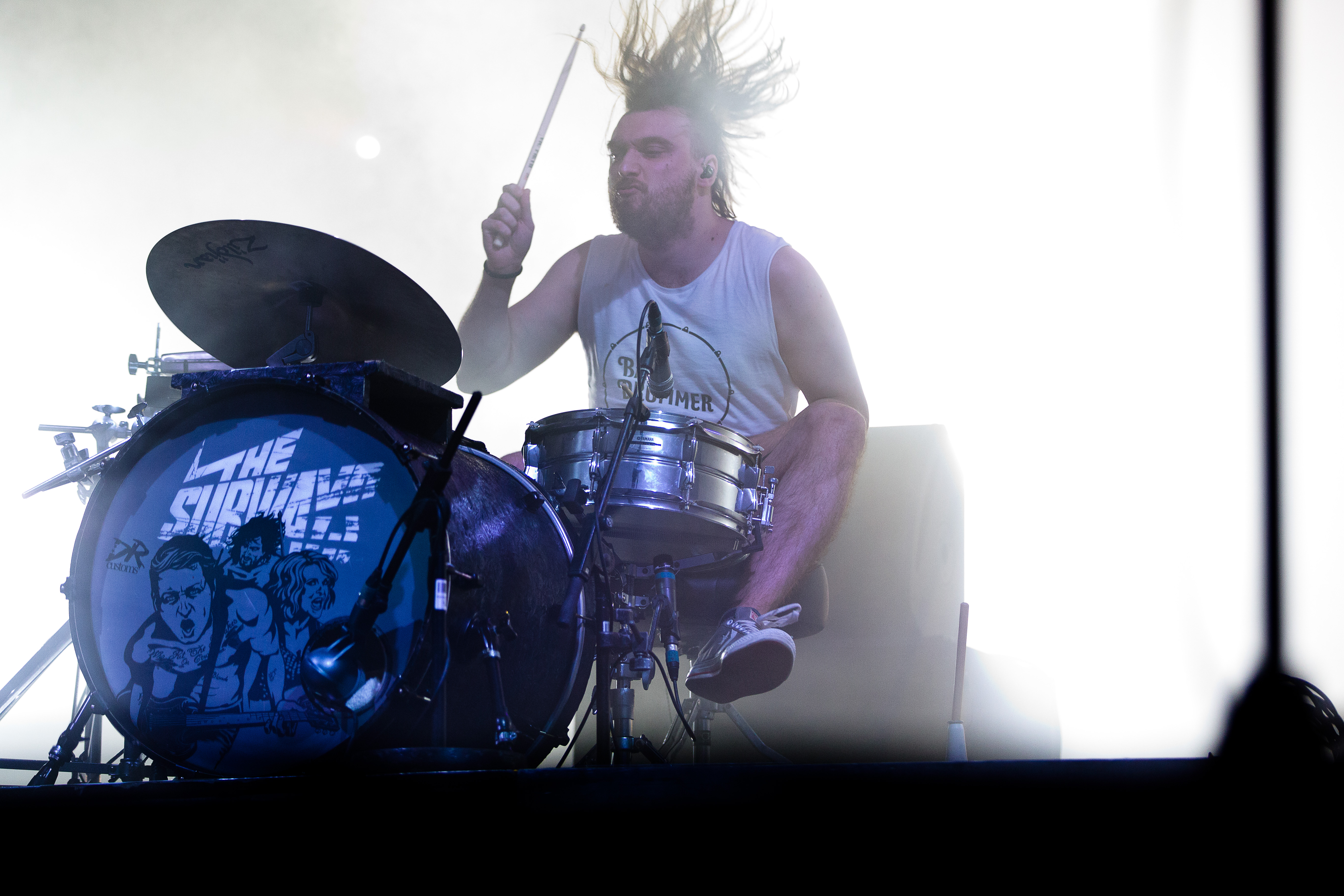 The British indie rock band The Subways at the "Rocken am Brocken" Open Air 2016 in Elend/Germany